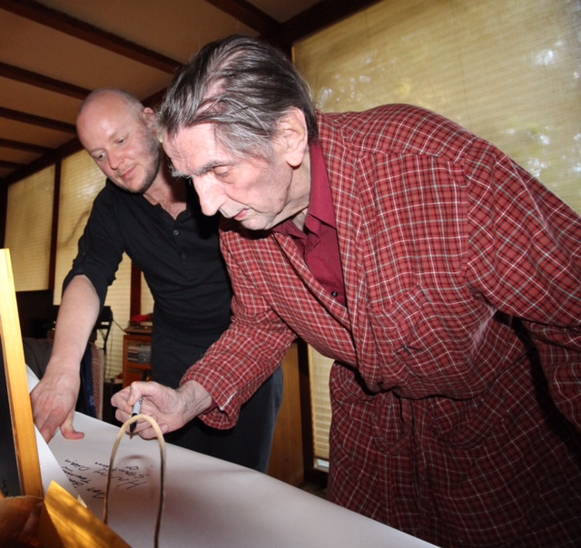 HDS with LT